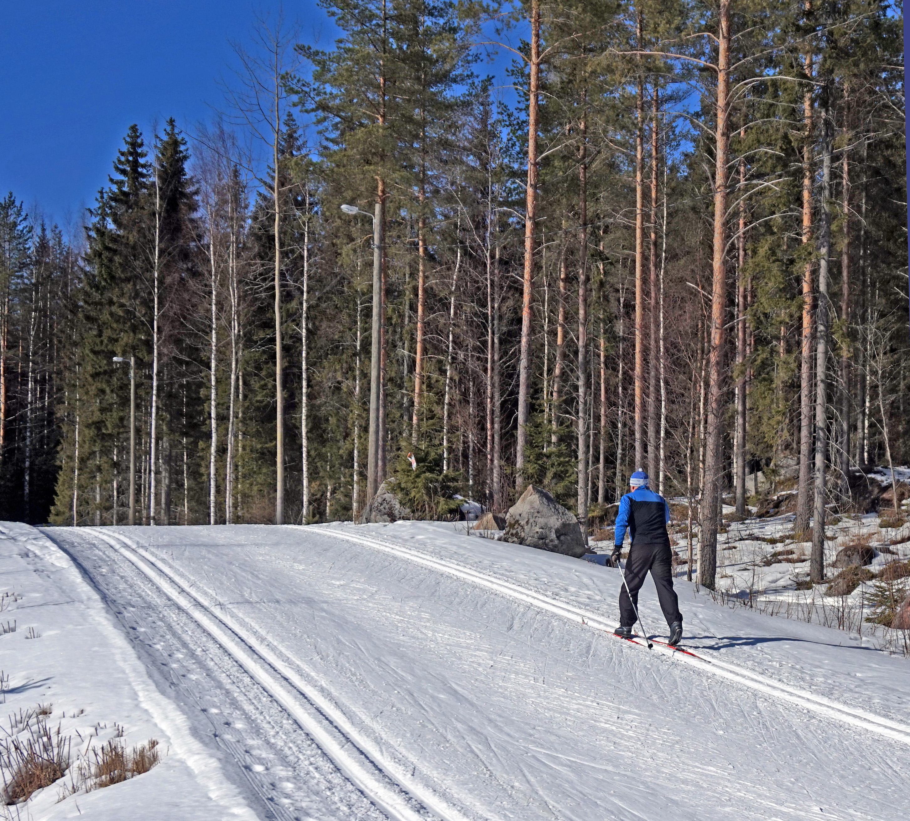 Classic cross-country skiing on uphill in Jyväskylä.